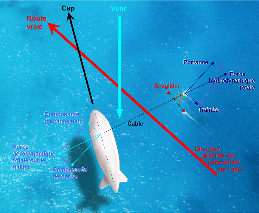 Diagram of principle of the Aerosail of Stéphane Rousson during the ascent to the wind